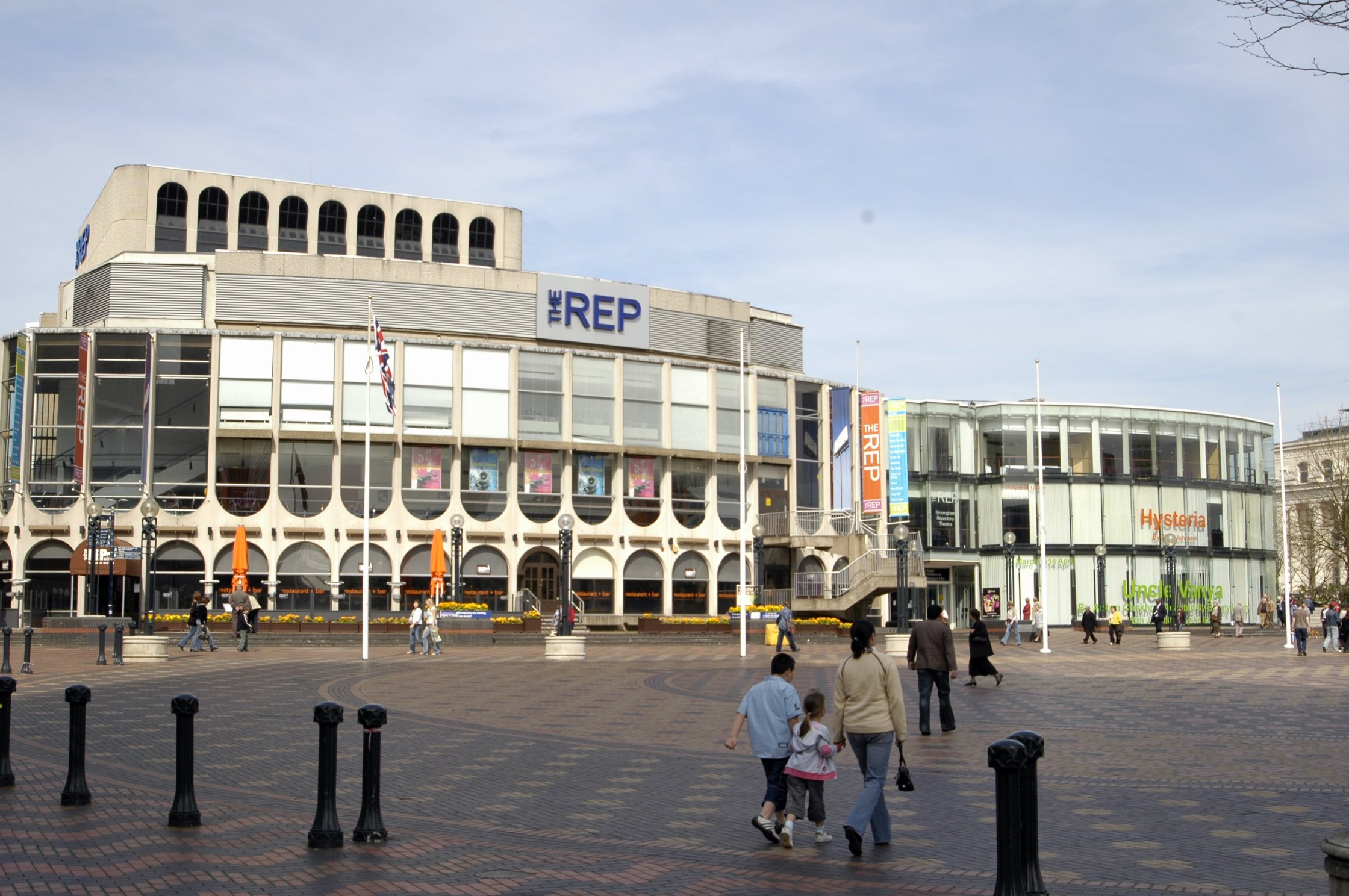 This is The Rep theatre from Broad Street in Birmingham, England.